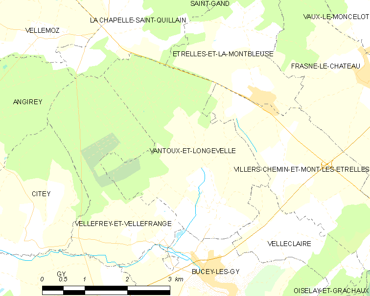 Map of French municipality